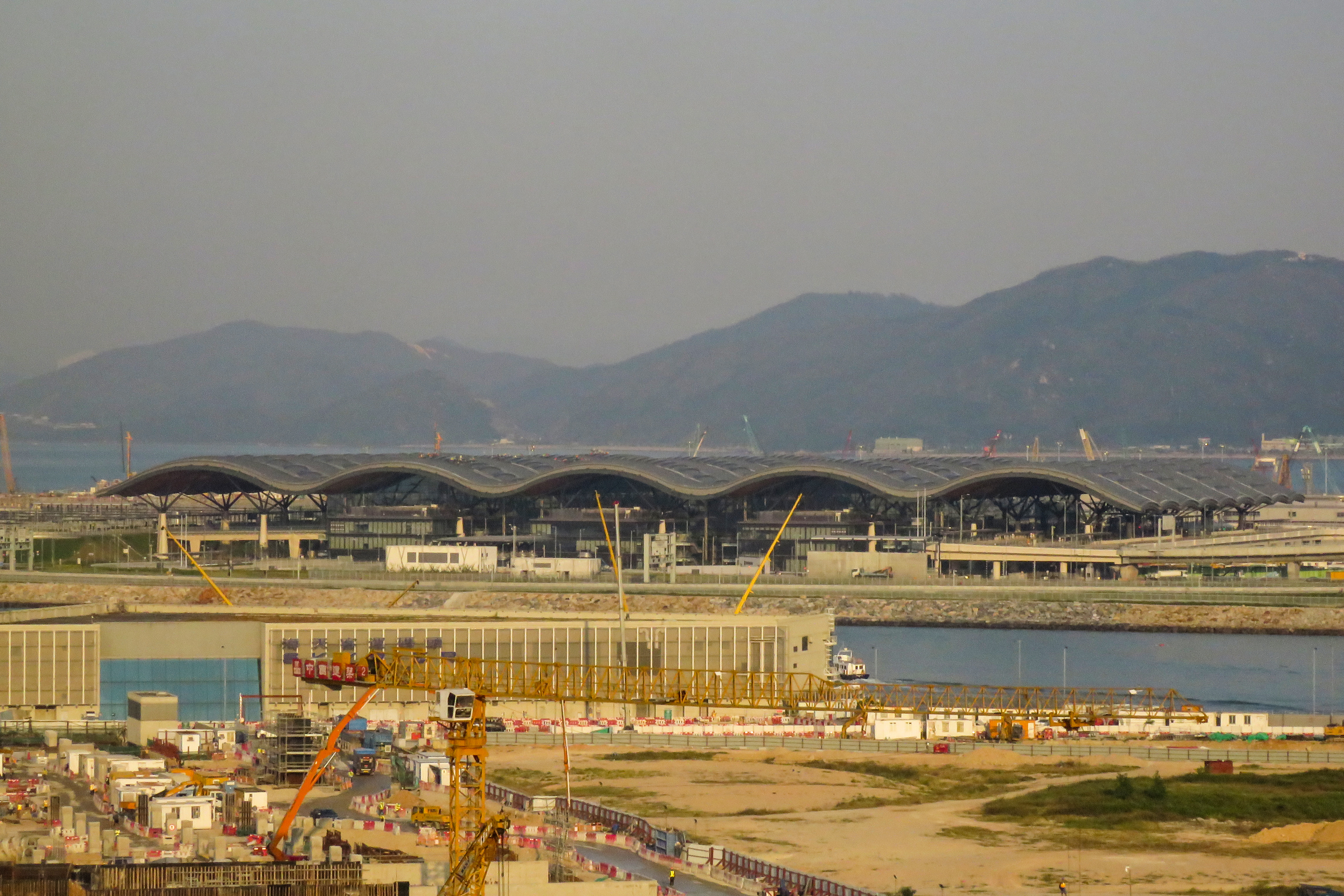 Taken from the lift exit of SkyDeck. The inauguration date later turned out to be 24 October 2018.